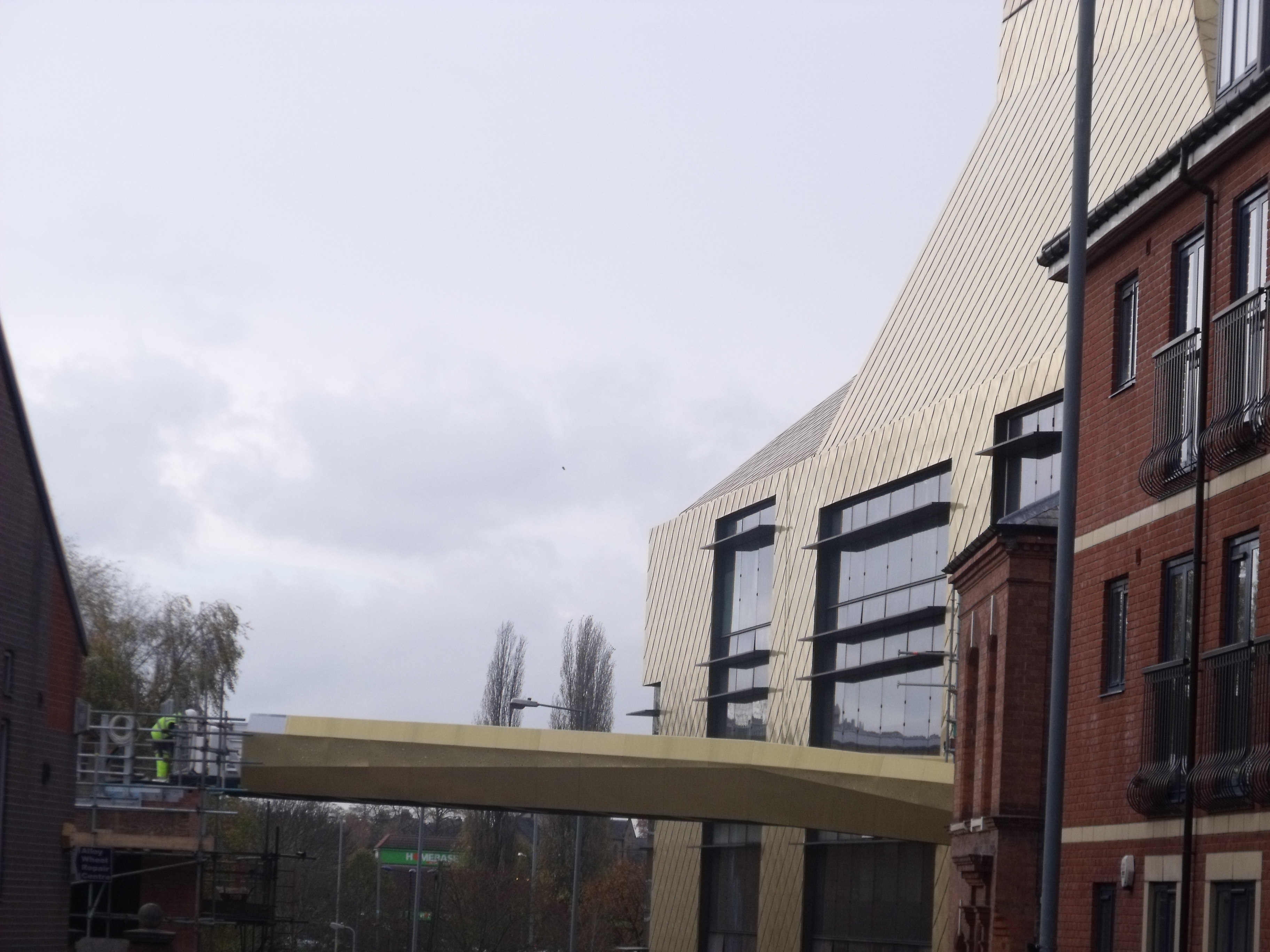 Wasn't expecting to find this on my walk to the River Severn in Worcester. It is The Hive - Worcester Library and History Centre. It was near The Butts. I noticed this bridge being built.